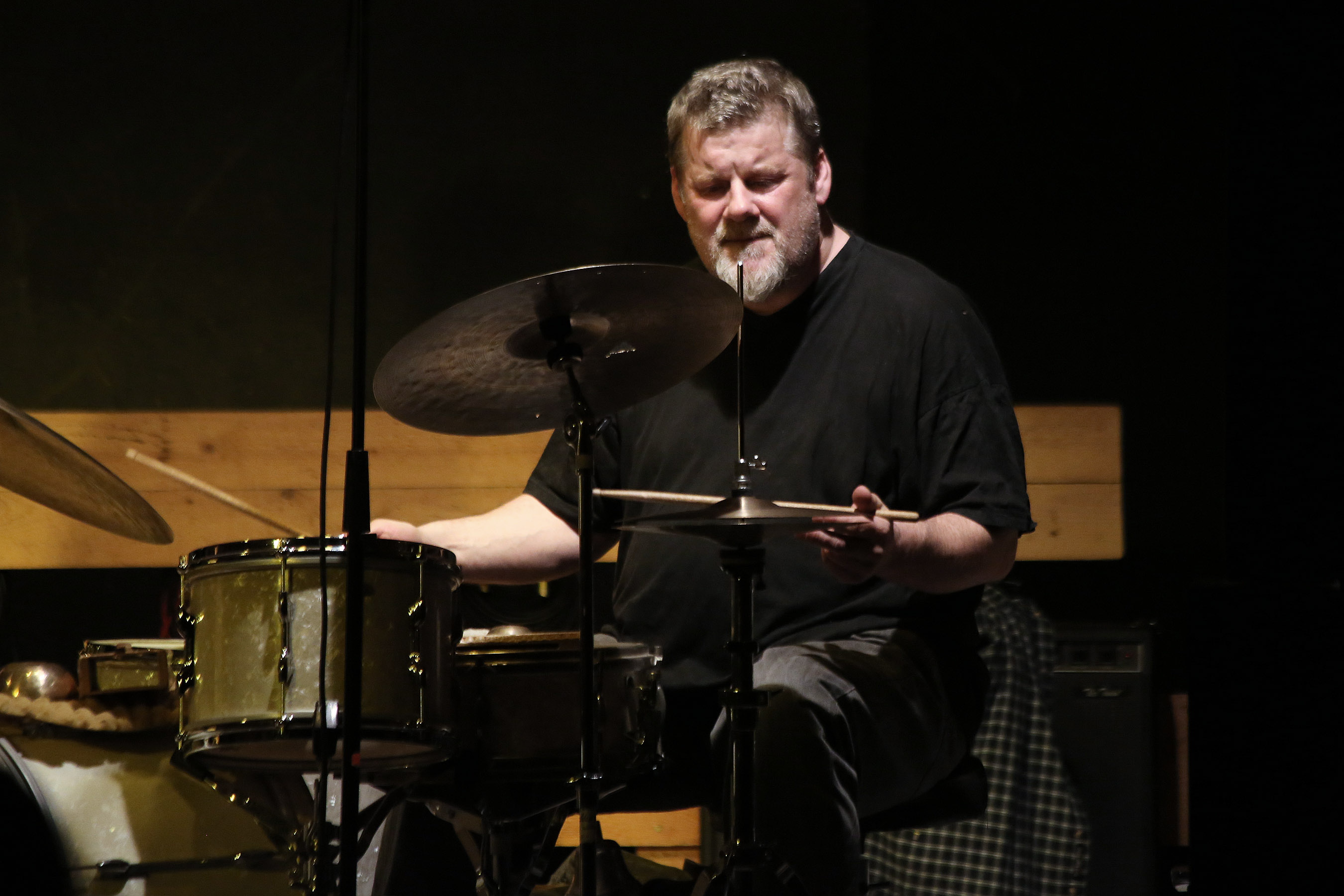 GUSH - Mats Gustafsson, Sten Sandell, Raymond Strid - Ulrichsberger Kaleidophon (Ulrichsberg, Upper Austria)